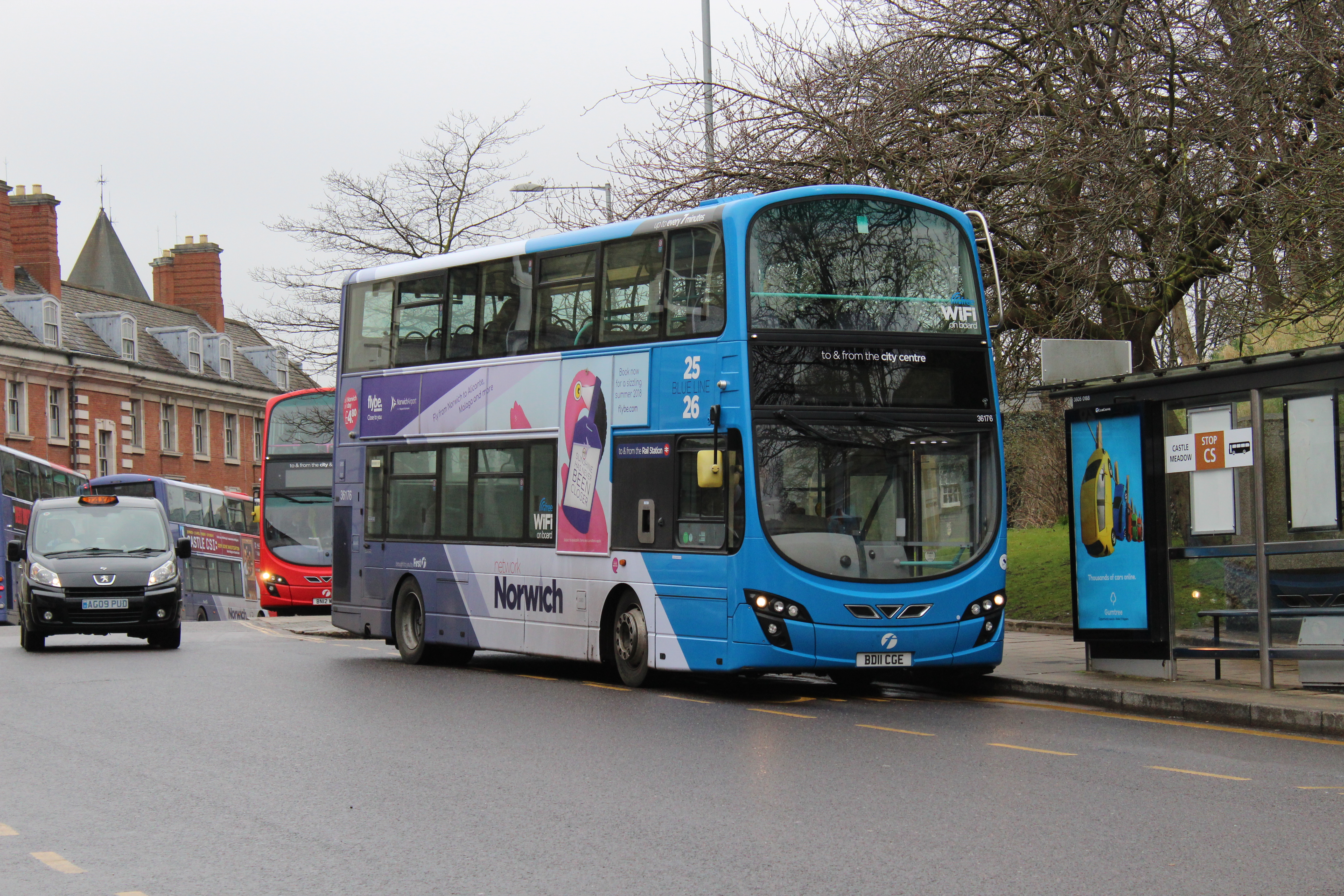 A Volvo B9TL/Wright Eclipse Gemini 2 carrying Network Norwich Blue Line branding in Norwich, Norfolk